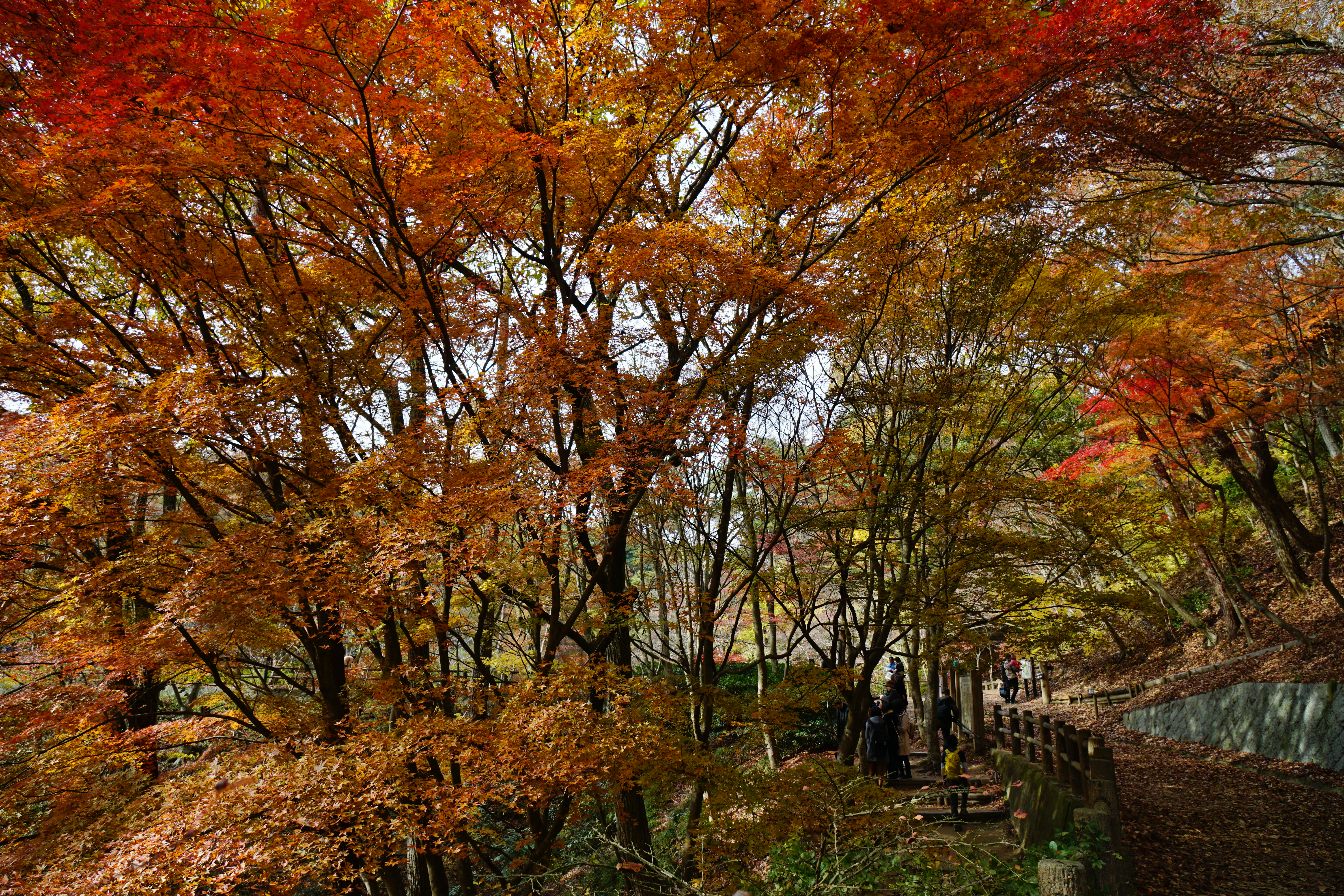 Kobe Municipal Arboretum in Kobe, Hyogo prefecture, Japan